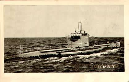 Estonian submarine Lembit